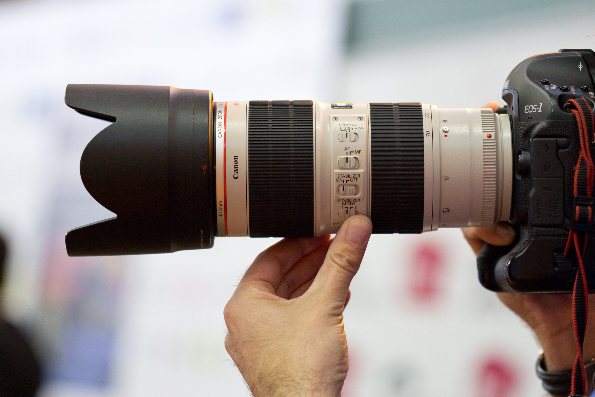 Canon EF 70-200mm f/2.8L IS II USM lens (attached to an EOS 1D Mark IV body) in a sport event.